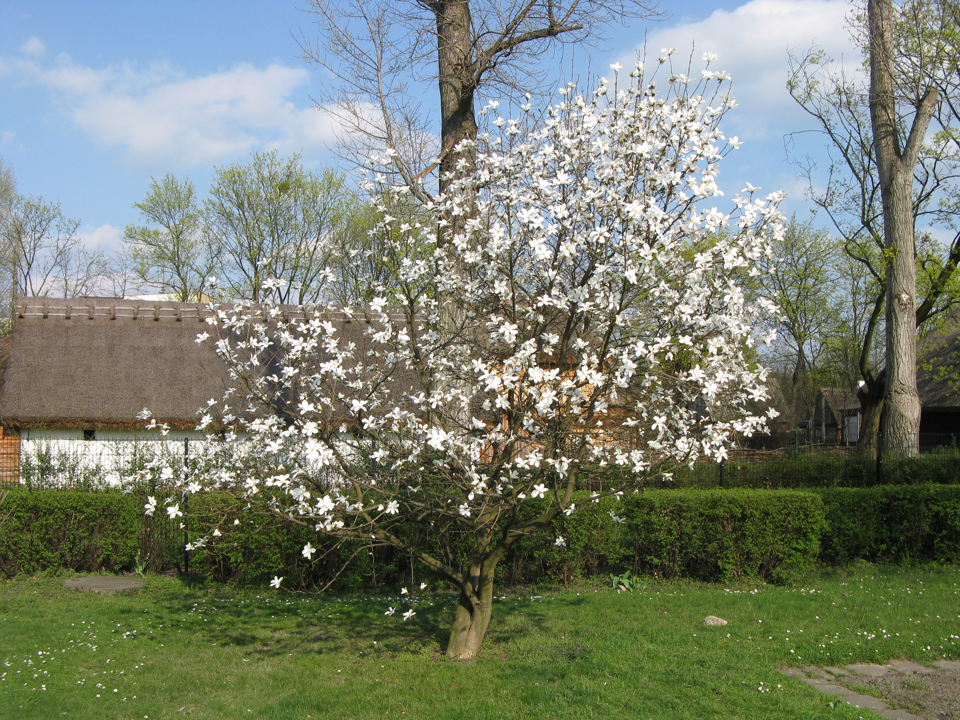 Magnolia species in section Yulania. This picture most likely represents Magnolia salicifolia because of the habit and because of the close-up of a flower in file File:Magnolia Toruń.jpg (see there).